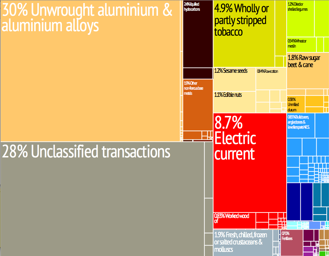 Export Trading Treemap. From MIT/Harvard Atlas of Economic Complexity